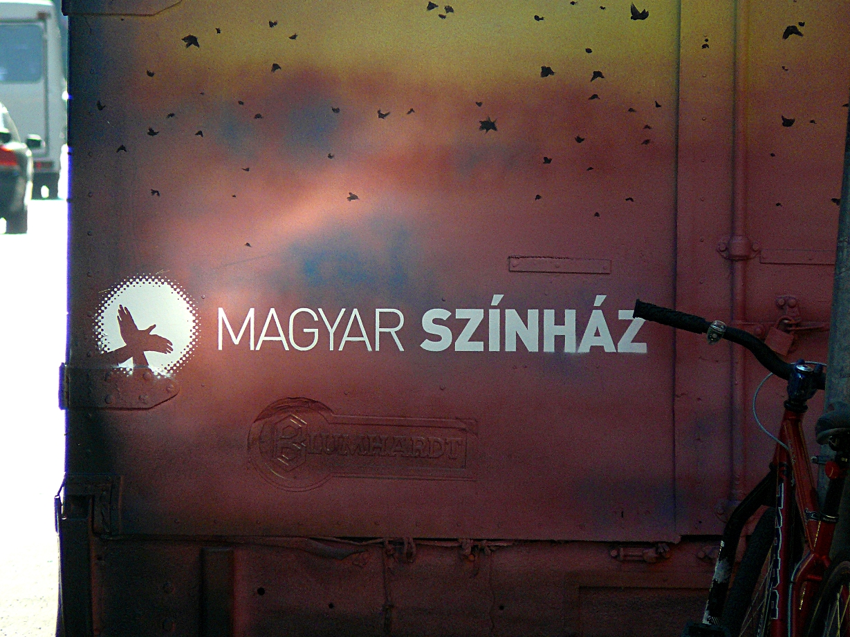 A transport vehicle supplied with the logo from the Pesti Magyar Színház (Hungarian Theatre of Pest)